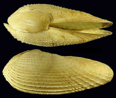 Barnea candida; marine bivalved shell commonly occurring in the North Sea.